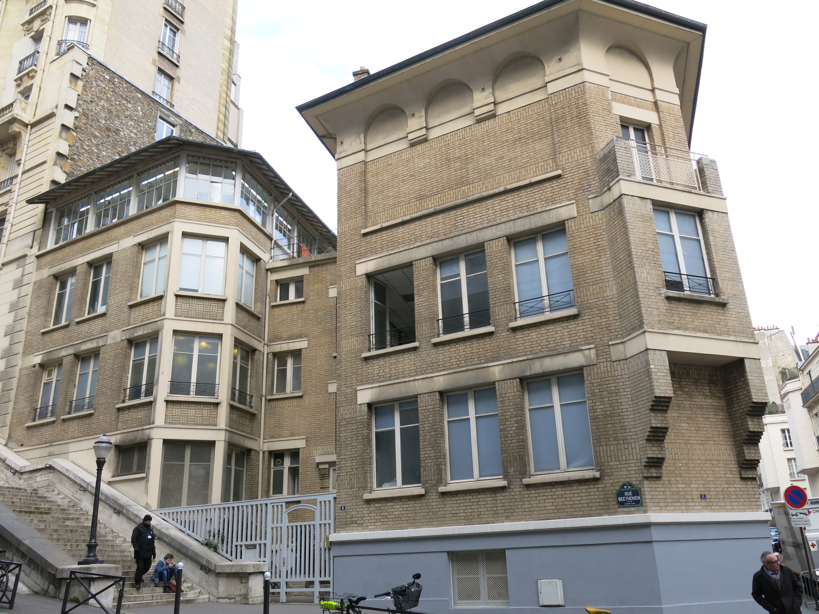 Building at 6 rue Beethoven, Paris 16th arrond. - International School of Paris secondary school